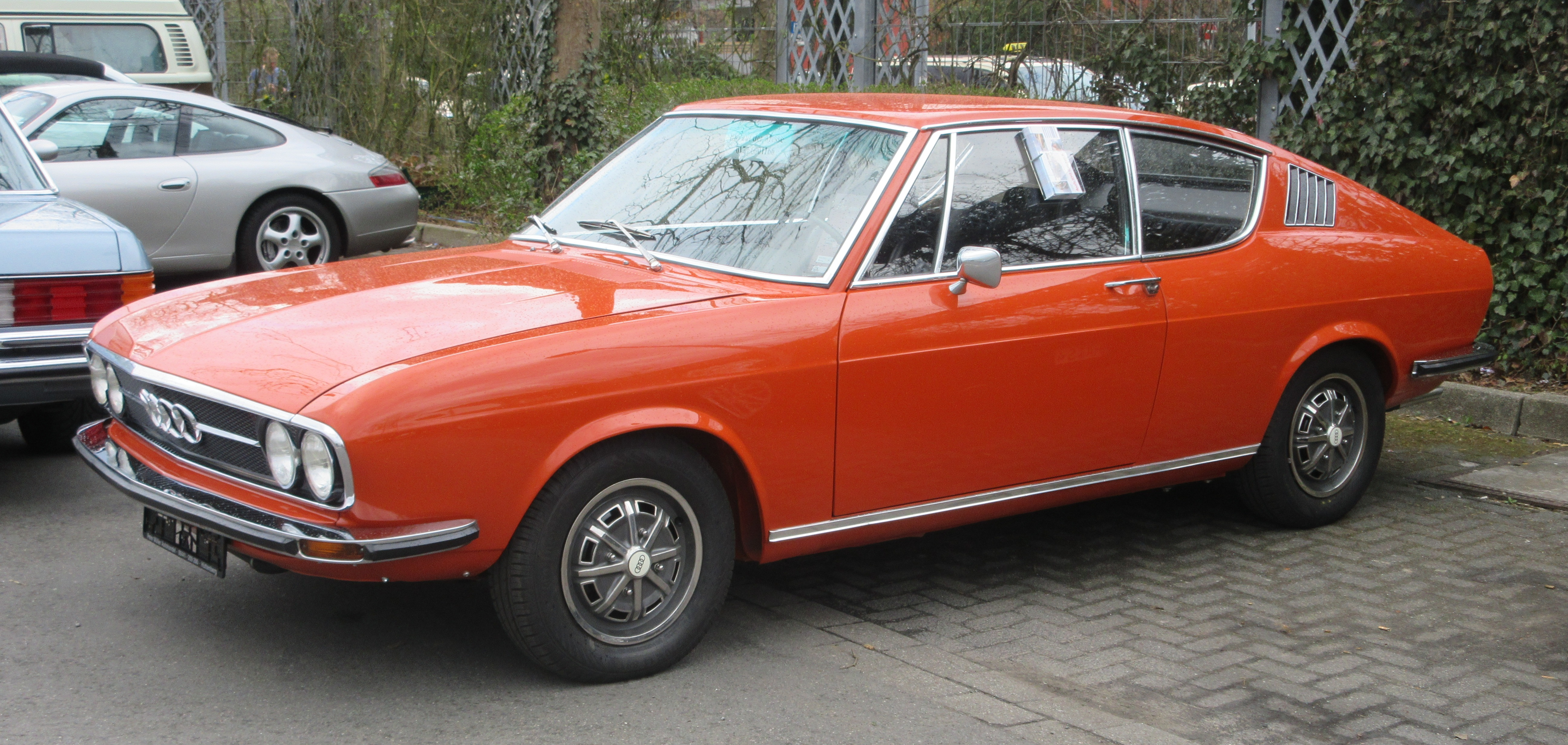 Subject: Audi 100 Coupé S Author: Luc106 Date:April 6th, 2016 Event: Techno Classica 2016 Place/Country: Essen (Deutschland) I release all rights in the public domain.